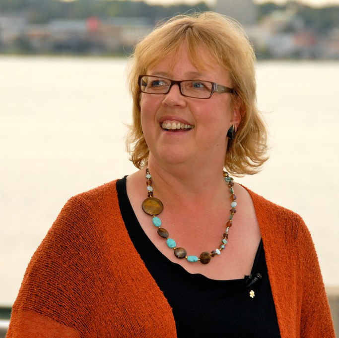 Green Party leader, Elizabeth May.